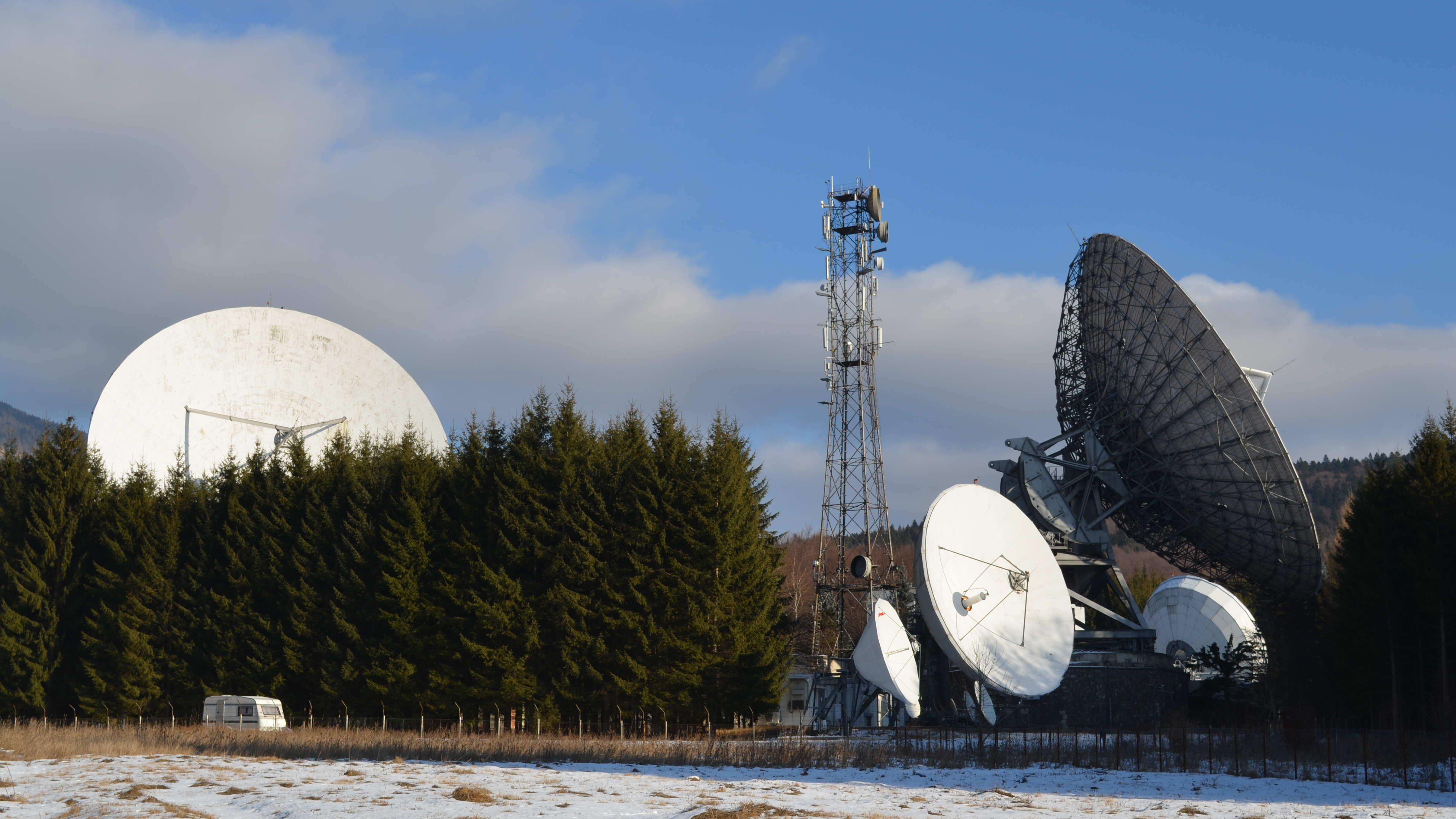 Satellite Communications Center of Radiocom (the National Company of Radio-communications), at Cheia, Prahova, RomaniaRomână: Centrul de comunicații prin satelit de la Cheia, aparținând Societății Naționale de Radiocomunicații (Radiocom)